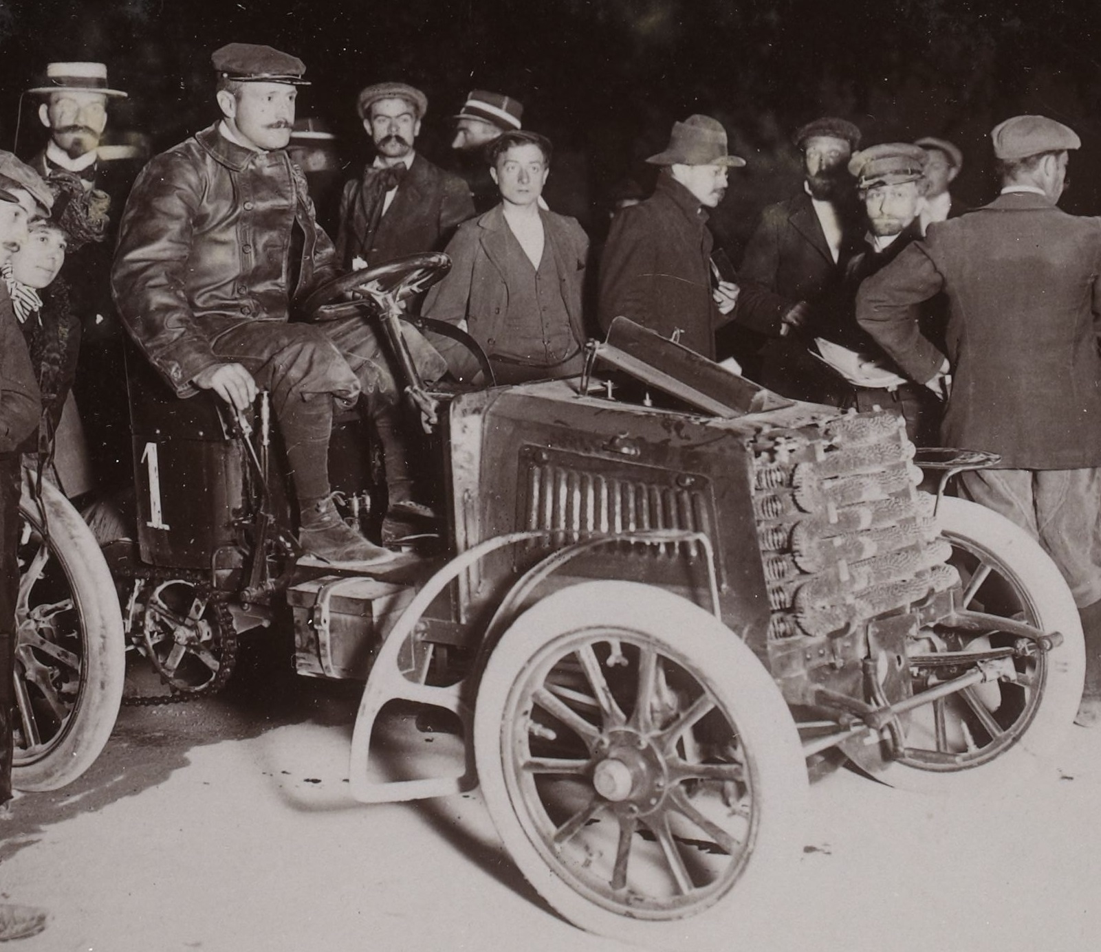 [Collection Jules Beau. Photographie sportive] : T. 14. Année 1901 / Jules Beau : F. 5. [Paris - Berlin, Grande course annuelle de l' Automobile Club de France, Course de vitesse, 27 -29 juin 1901]